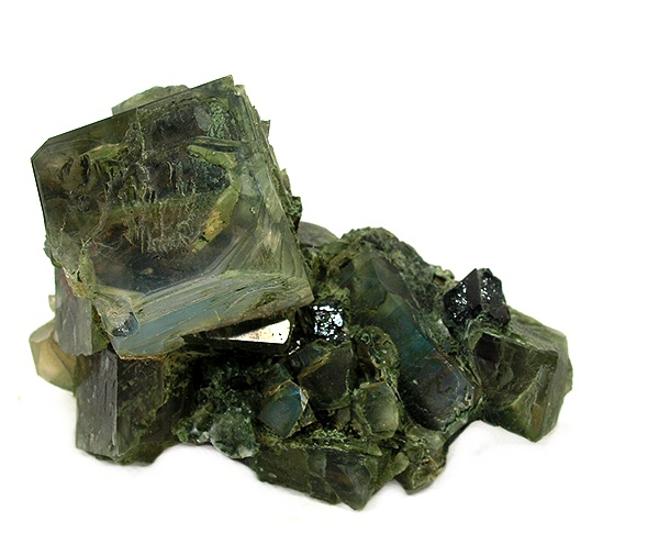 Albite-Anorthite Series Locality: Pili Mine, Sonora, Mexico (Locality at ) Size: small cabinet, 6.1 x 4 x 2 cm Plagioclase Feldspar var. Moonstone This is a very rare example of that color-shifting plagioclase feldspar known more commonly as "moonstone" for its pearlescent shimmer and play of colors. This small find came out of one pocket, found in the late 1980s. I remember seeing them at the time, quite clearly. Today, they are impossible to obtain and remain one of the best natural illustrations of this interesting varietal of feldspar. It is very 3-dimensional, very "silky", and has good play of colors in shifting light. Ex. Martin Zinn Collection.